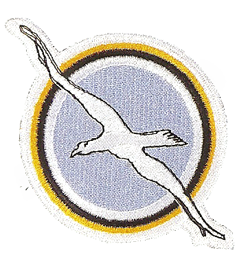 Emblem of the 101st Fighter-Interceptor Squadron (MA ANG - Air Defense Command)